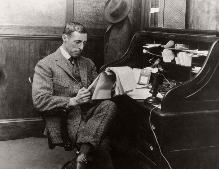 Photograph of movie director D. W. Griffith sitting at a rolltop desk. Courtesy of the New York Public Library Digital Collection.